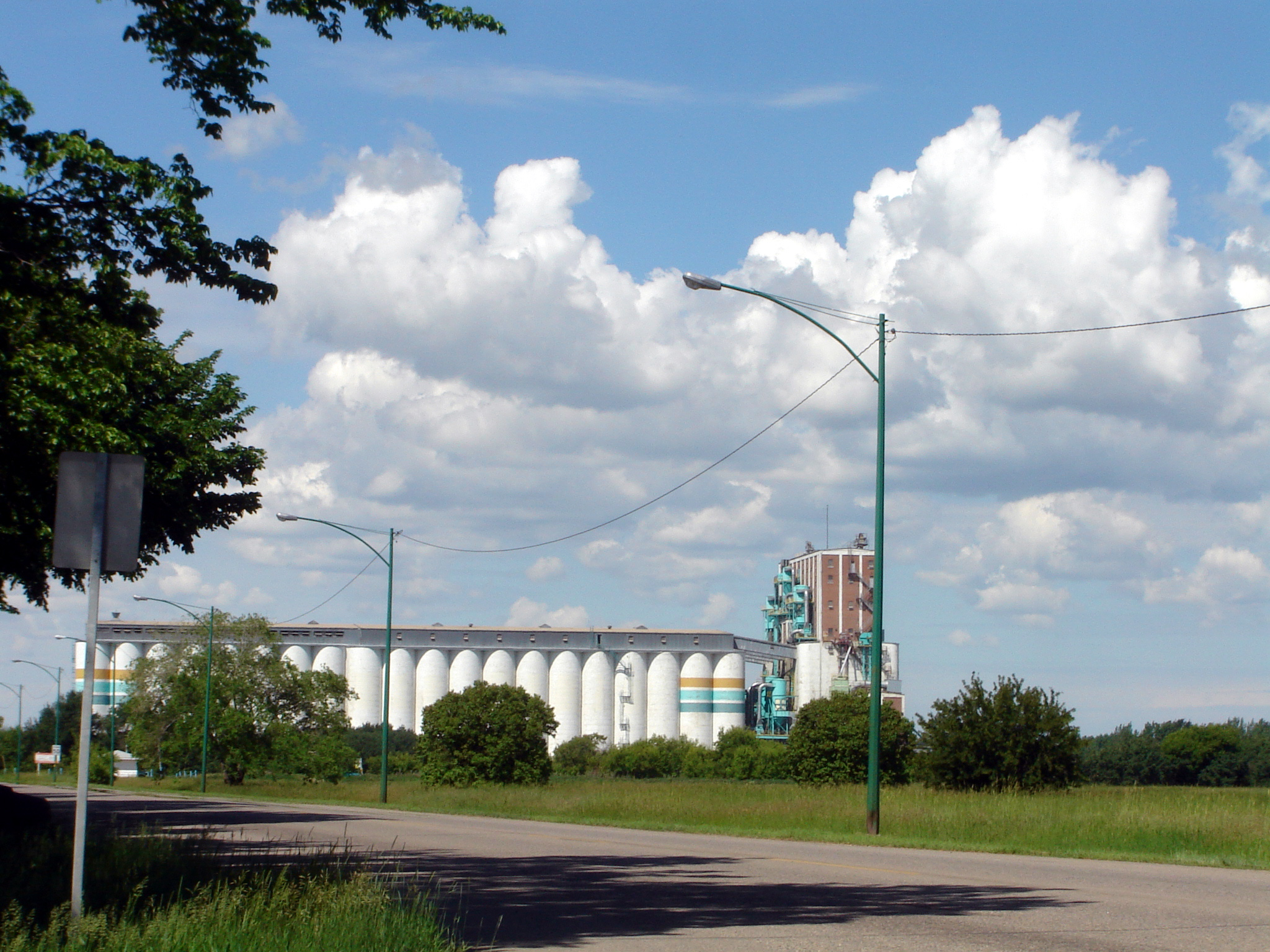 Ag Pro Terminal, Canadian Government Elevators,Now the Sask Wheat Pool SWP Elevator, Saskatoon AgPro Industrial, Saskatoon